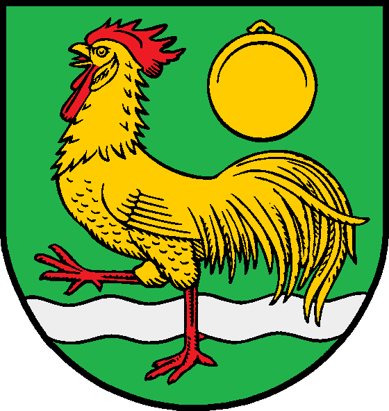 Coat of arms of Stuvenborn Blasonierung: In Grün, vor silbernem Wellenbalken im Schildfuß, ein kampfbereiter, rotbewehrter goldener Hahn, begleitet oben links von einer goldenen Scheibe (Goldmedaille) mit Aufhängeöse.